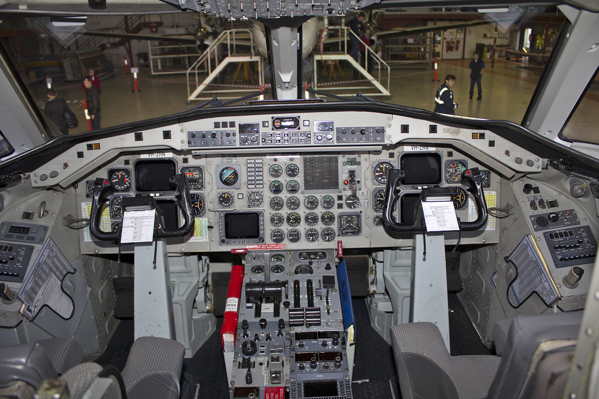 Cockpit of Regional Express Airlines' (VH-ZRN) SAAB 340B.